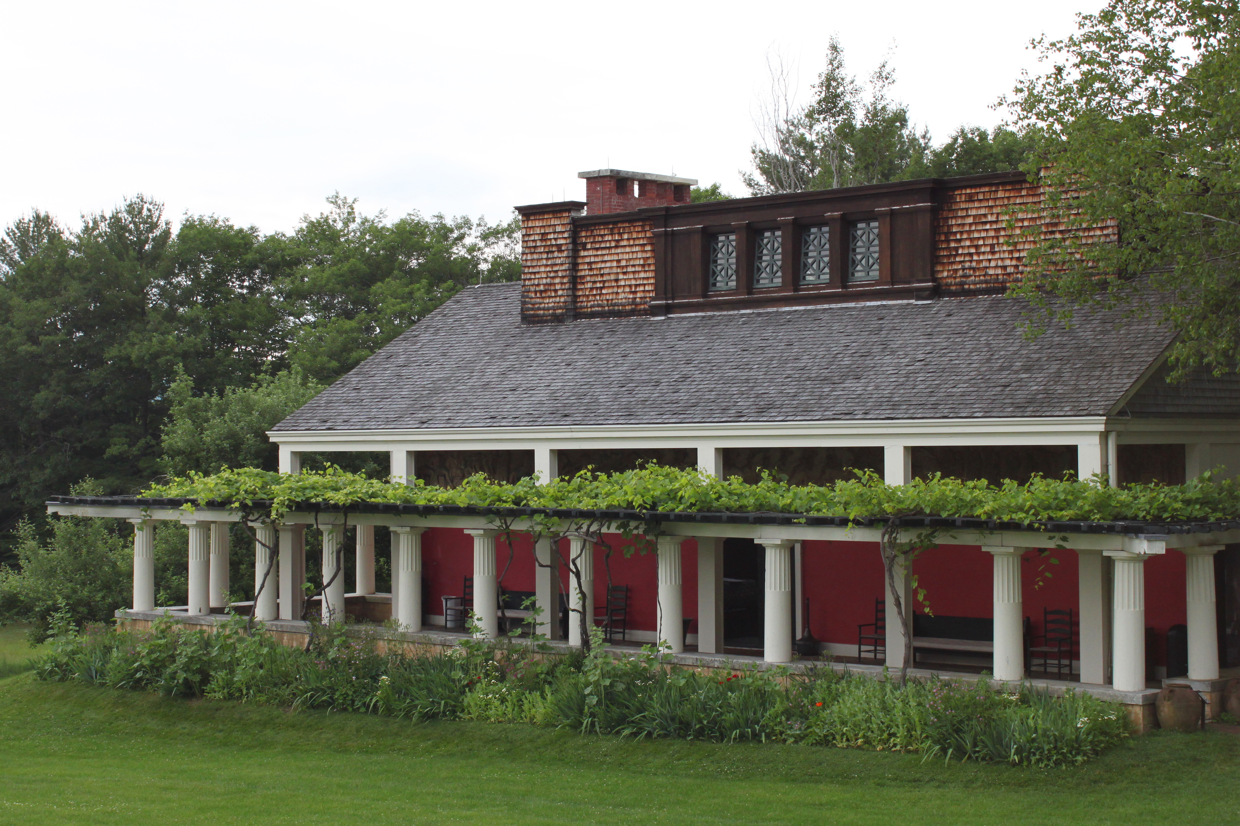 Augustus Saint-Gaudens Memorial, Cornish, New Hampshire.